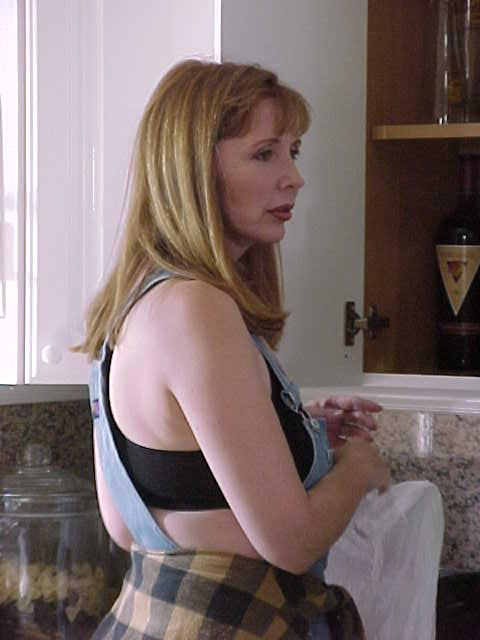 On set of Naked Hollywood